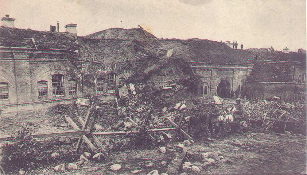 The second fort of Kaunas after German bombardment in WWI.